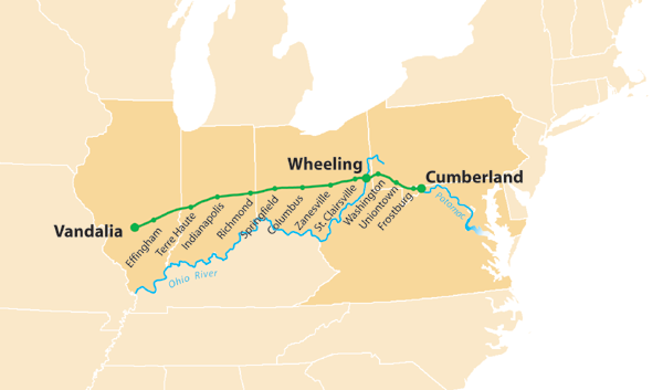 Map showing the route of the historic National Road — at its greatest completion in 1839.